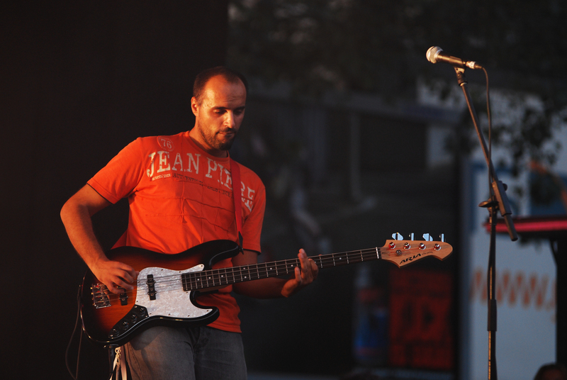 Silviu Sanda (from Timpuri Noi band), at Green Day Concert in Revolution Square, Bucharest